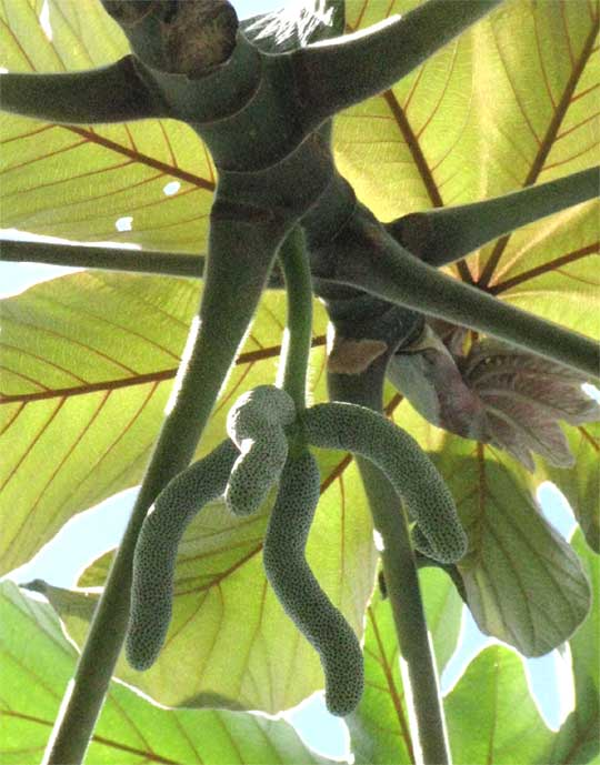 The female flower spikes of Cecropia peltata.